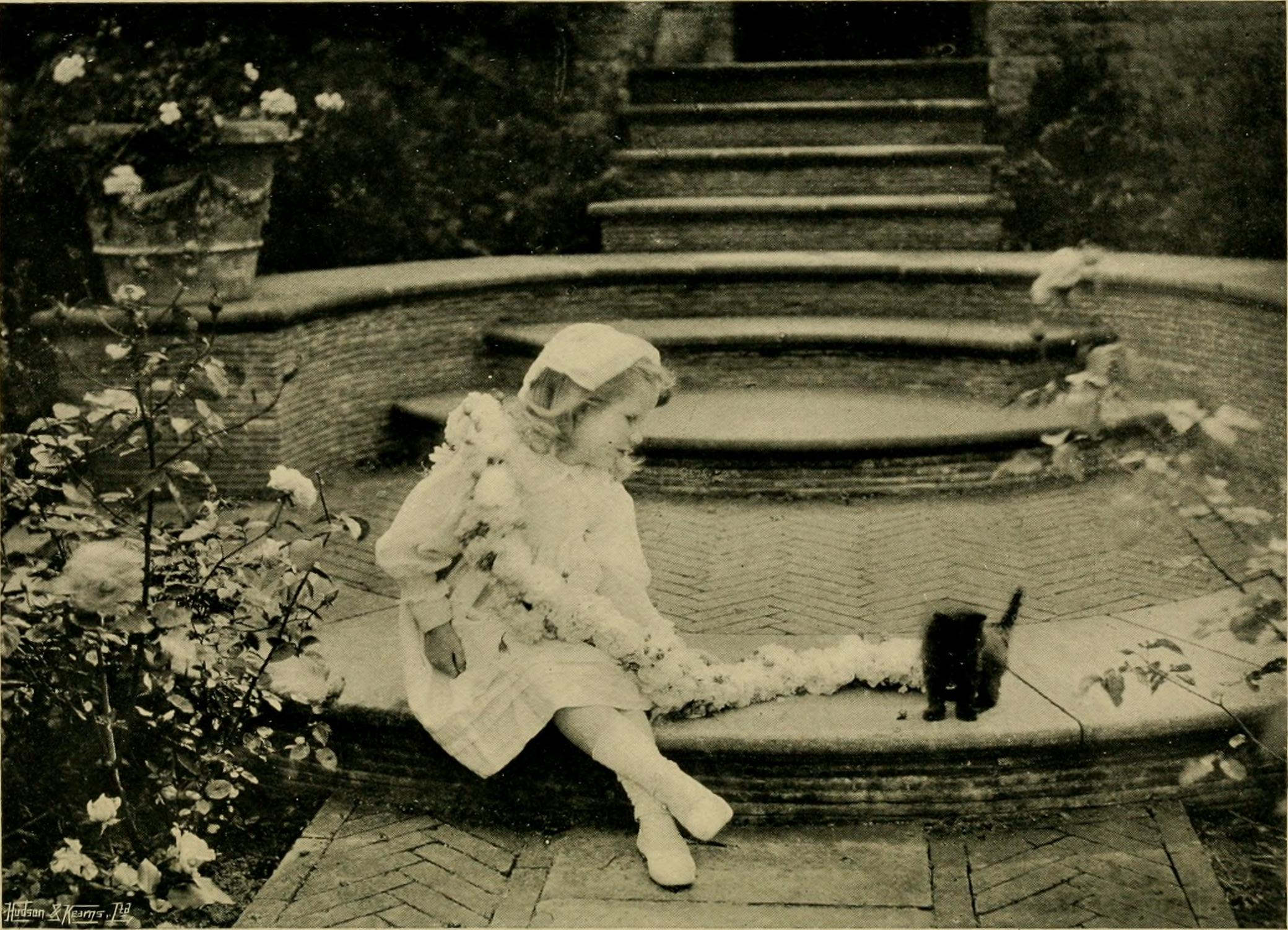 Title: Children and gardens Year: 1908 (1900s) Authors: Jekyll, Gertrude, 1843-1932 Subjects: Gardening Children Amusements Publisher: London, Offices of 'Country life', ltd. (etc.) New York, C. Scribner's sons Text Appearing Before Image: TWO LITTLE WAIFS. Text Appearing After Image: PUSSIES IN THE GARDEN 105 constant companion of all. His fur is deliciously softand fine, and he has dainty pretty ways, quite littlelady-ways, we always say. He has one odd trick thatI do not remember having seen in any other cat. Hepuffs out his tail when he is pleased—usually ashort-haired cat puffs out his tail only when he isfrightened, or angry, or fighting. But Tavy makes abeautiful tail when we are playing together, and he isquite pleased with himself and with me. On the rareoccasions when he walks with me in the garden—heis jealous, and will never come if any other cat ispresent, he makes a beautiful tail and walks in a veryodd way—a sort of waddling strut; we call it Tavysingratiating waddle; purring hard all the time andexpecting a great deal of praise and attention. Dorotheas home is a short mile away. It is adelightful house, with beautiful wild ground and gardenall round it. Pussies are much loved there. Acurious thing happened. One morning two tiny long-haired kit